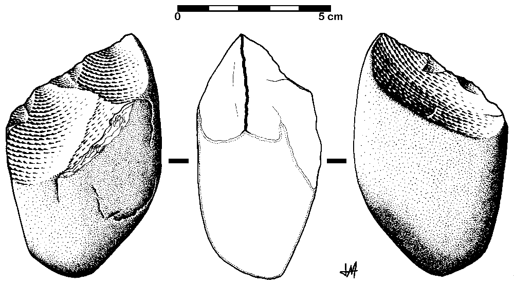 Chopping tool that proceeds from a superficial site in the Valladolid province (Spain), in the Douro valley.